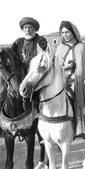 A photo of Mustapha el Akkad an horse back with Anthony Quin, Irene Papas, Mona Wasif and Abdullah Ghaith